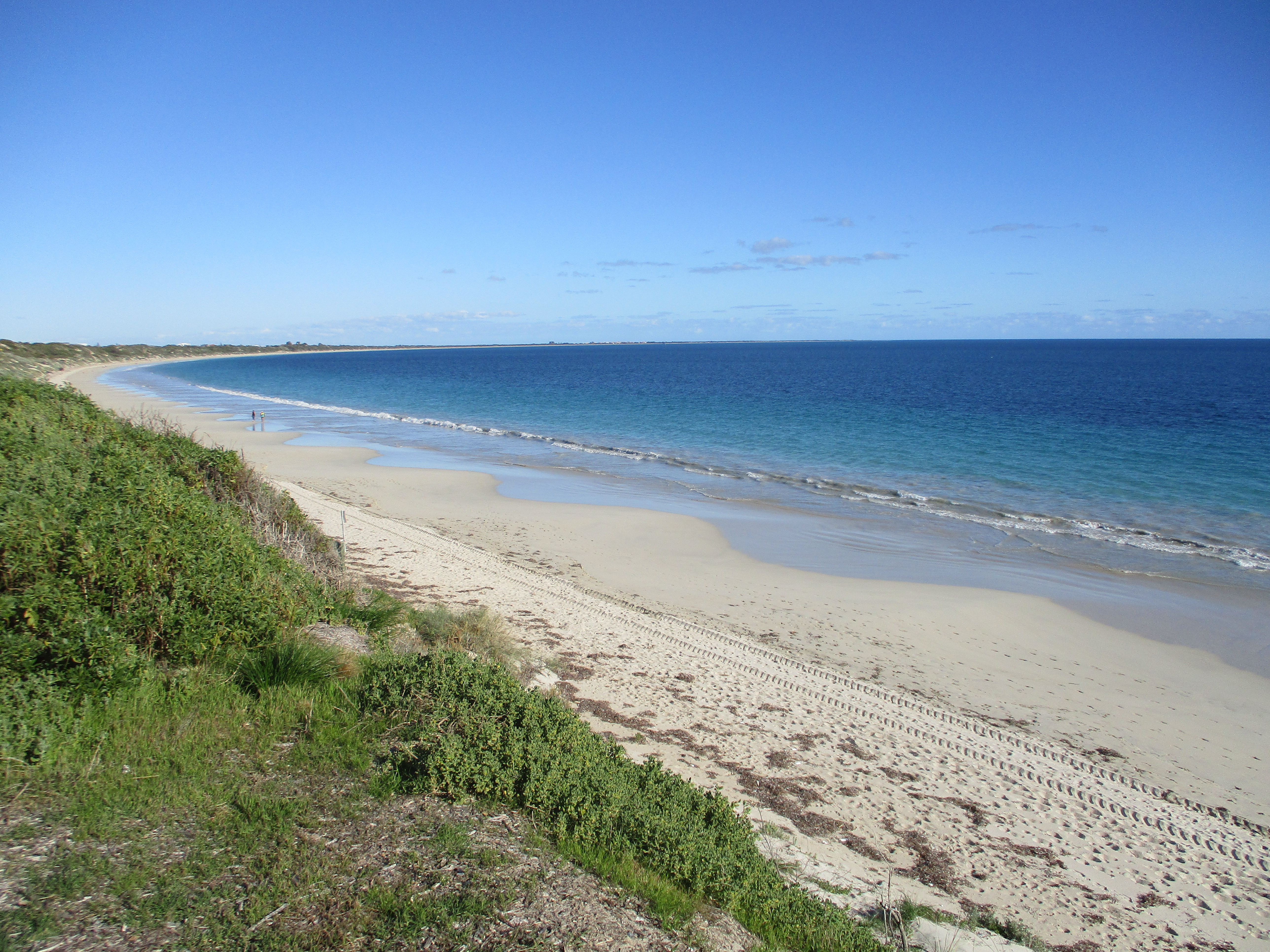 Looking south at Warnbro Sound from Warnbro Beach. Waikiki and Port Kennedy can be seen, up to Becher Point.